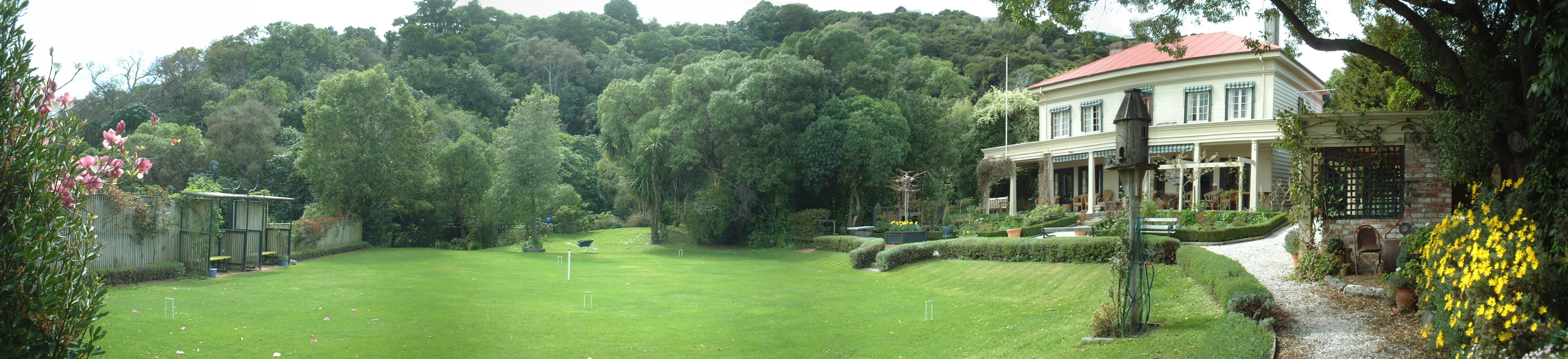 Panorama of Blythcliffe in Akaroa.